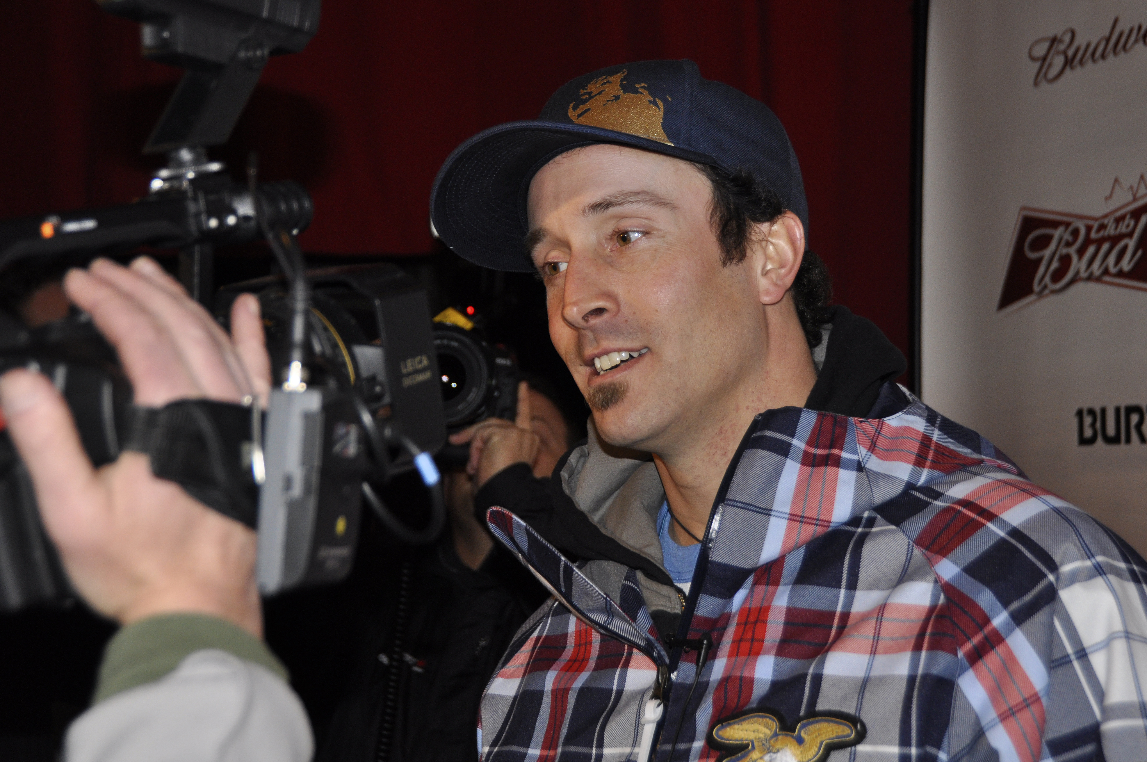 Seth Wescott at the Club Bud private Burton party